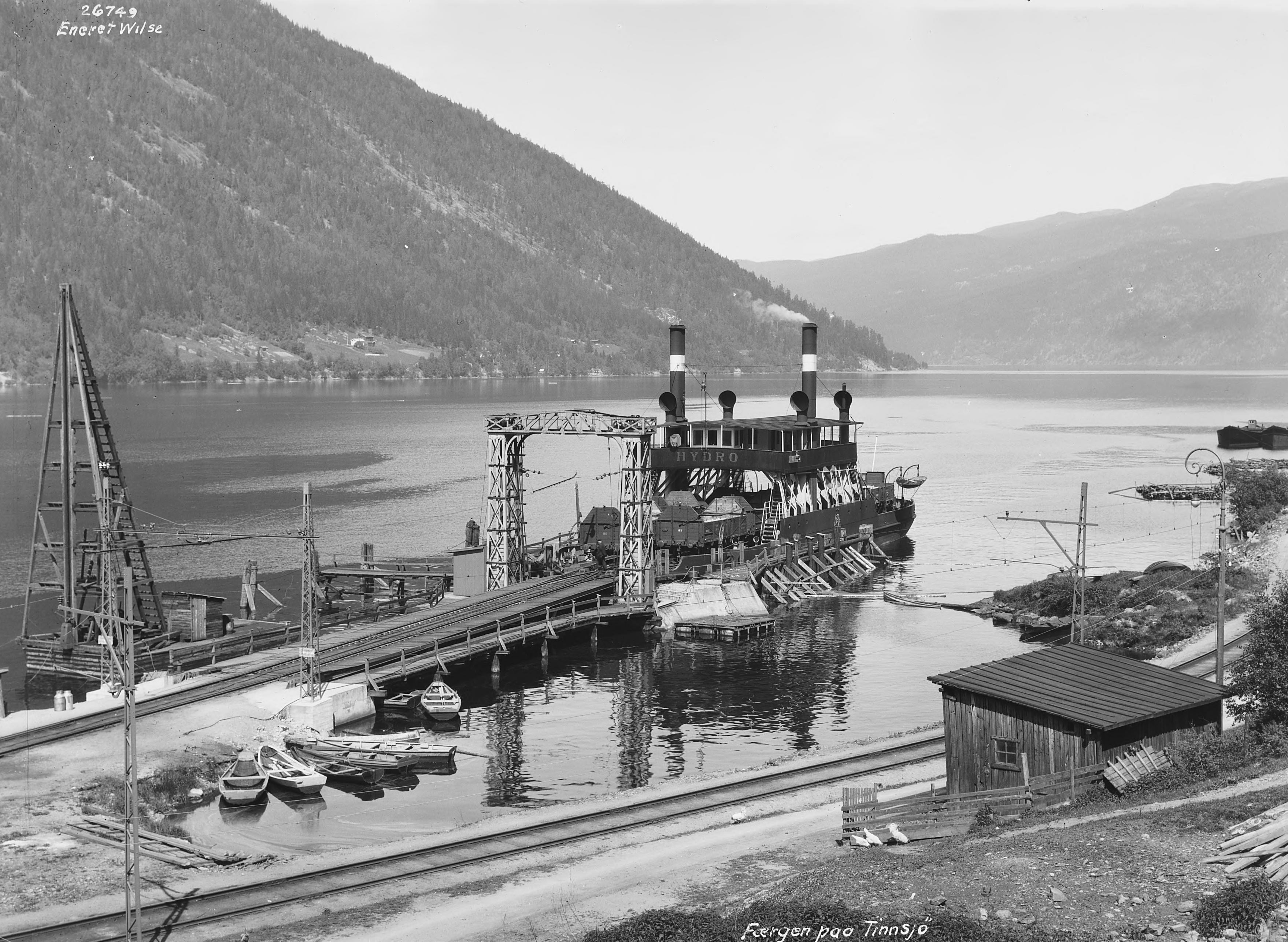 D/F Hydro that operated between Rollag and Mæl as a railway ferry. Sunk by Norwegian resistance during World War II; a key event to hinder Nazi Germany from developing nuclear weapons.